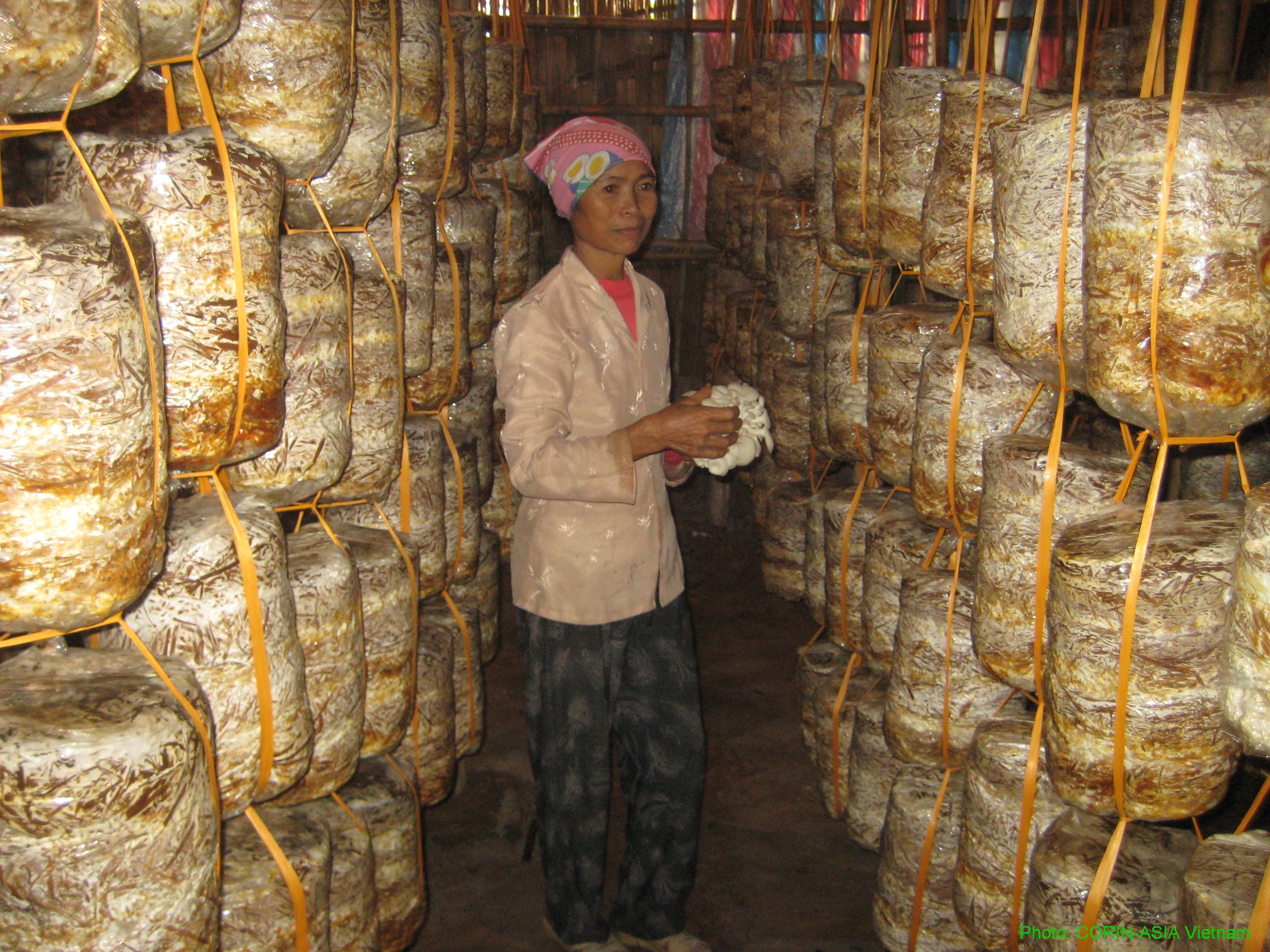 A woman working in the Mushroom Club of Xuan Thuy National Park, a project to create alternative livelihoods for the local community.